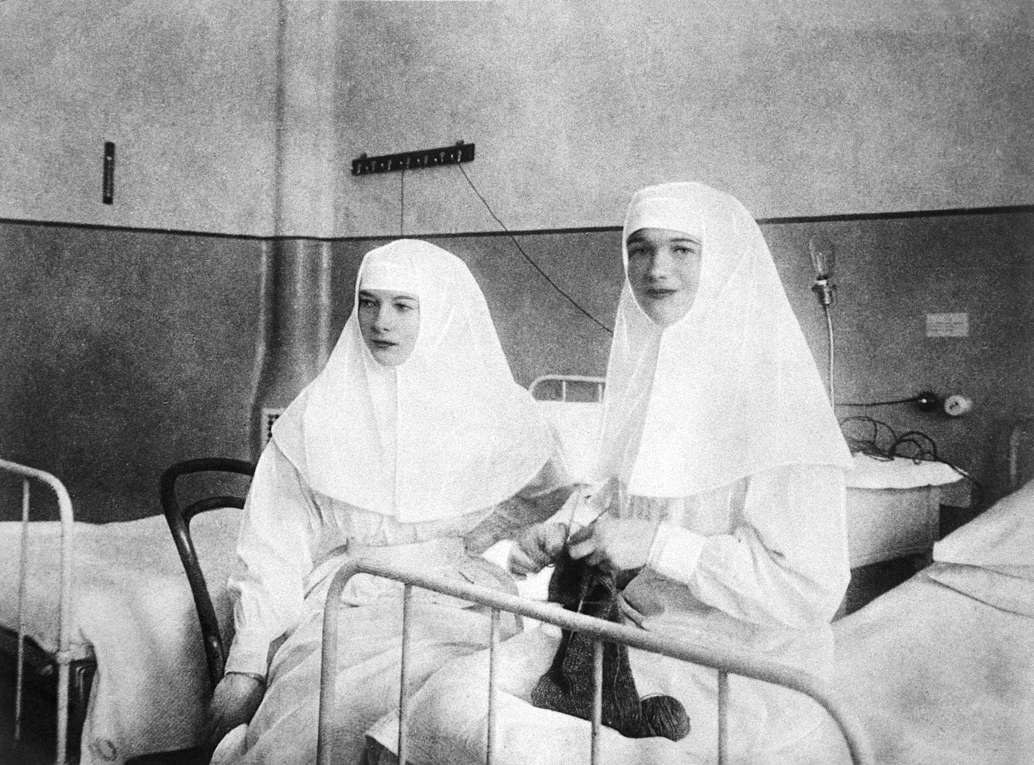 Grand Duchesses Tatiana and Olga Nikolaevna of Russia as nurses on a hospital bed.